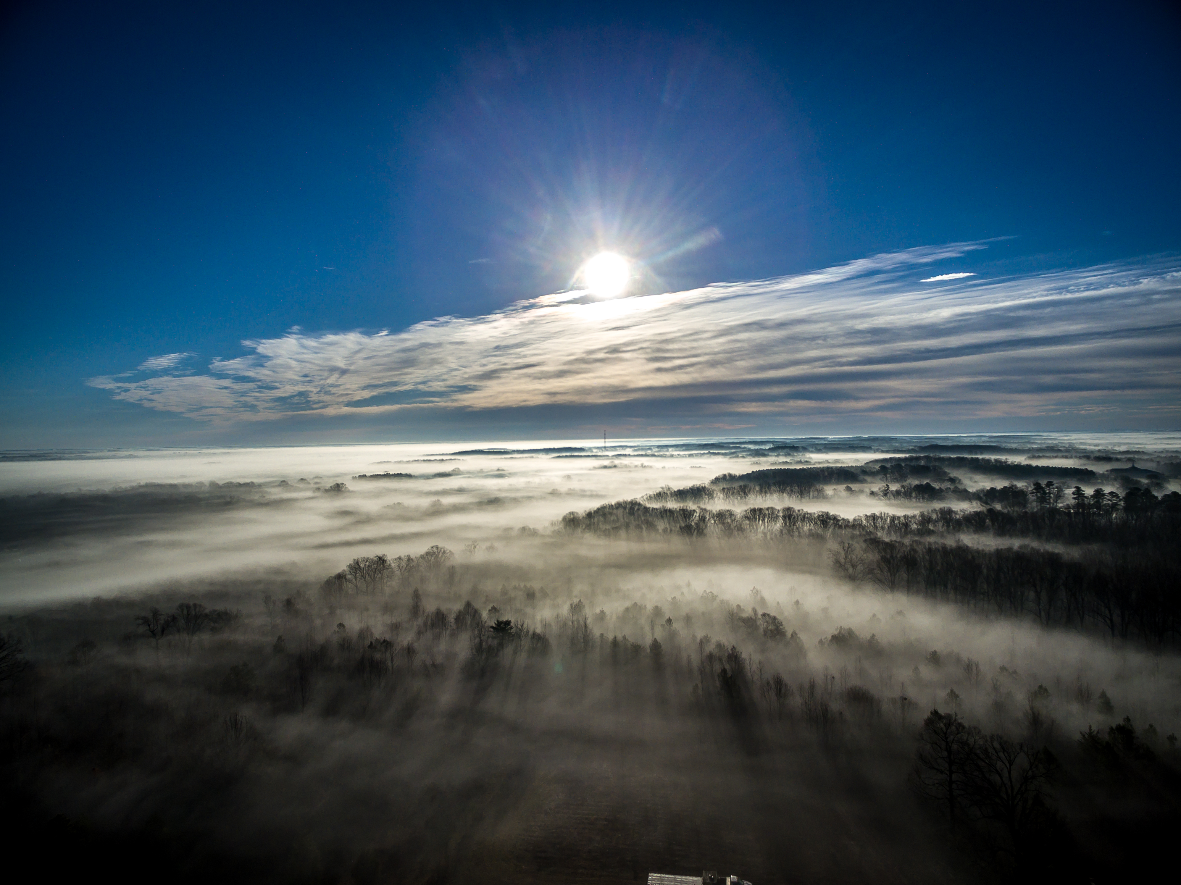 Early to mid morning aerial fog shot with my DJI Phantom P3 Pro drone